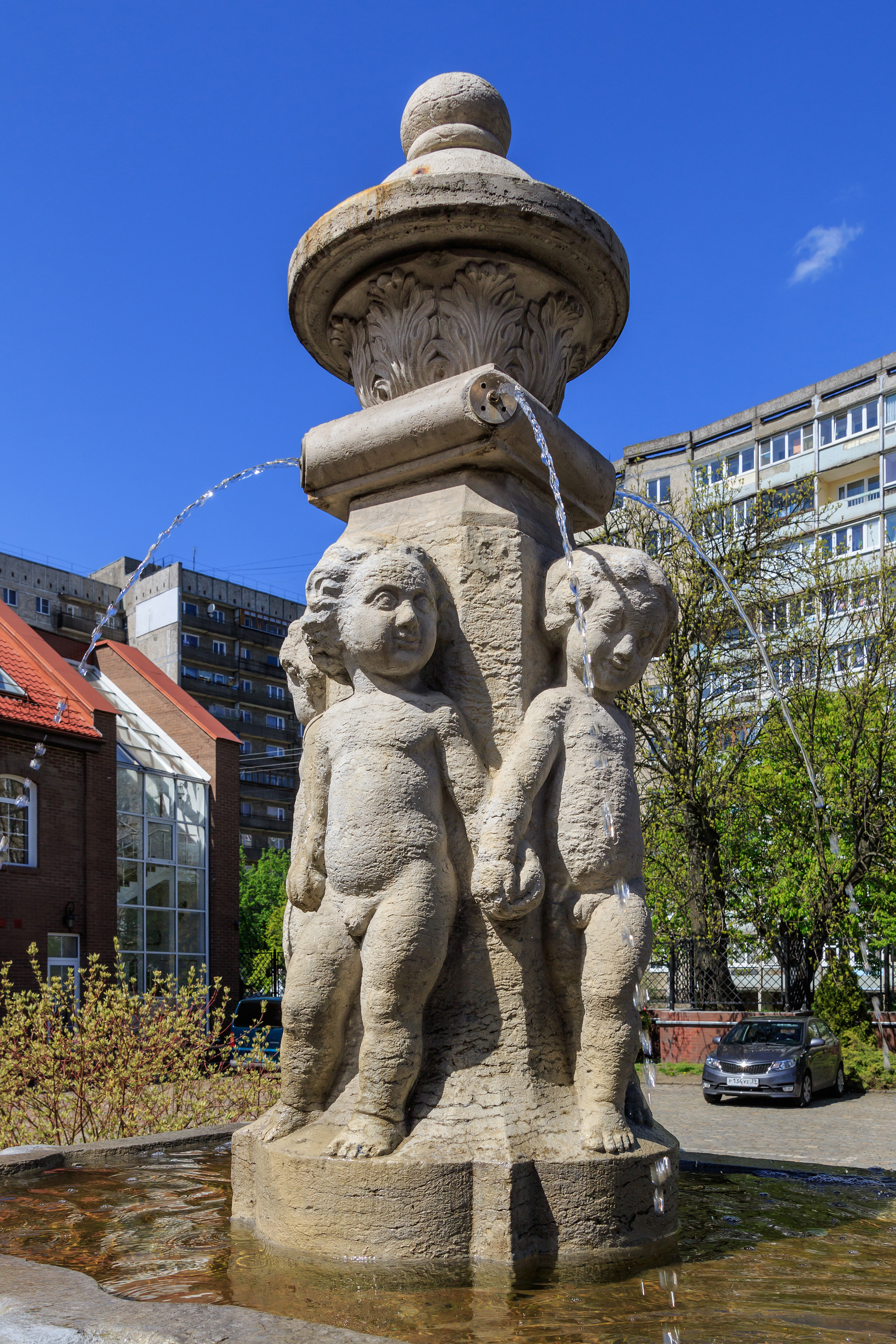 Stanislaus Cauer's Putti Fountain in Kaliningrad formerly Königsberg, Kaliningrad Oblast (Russia).